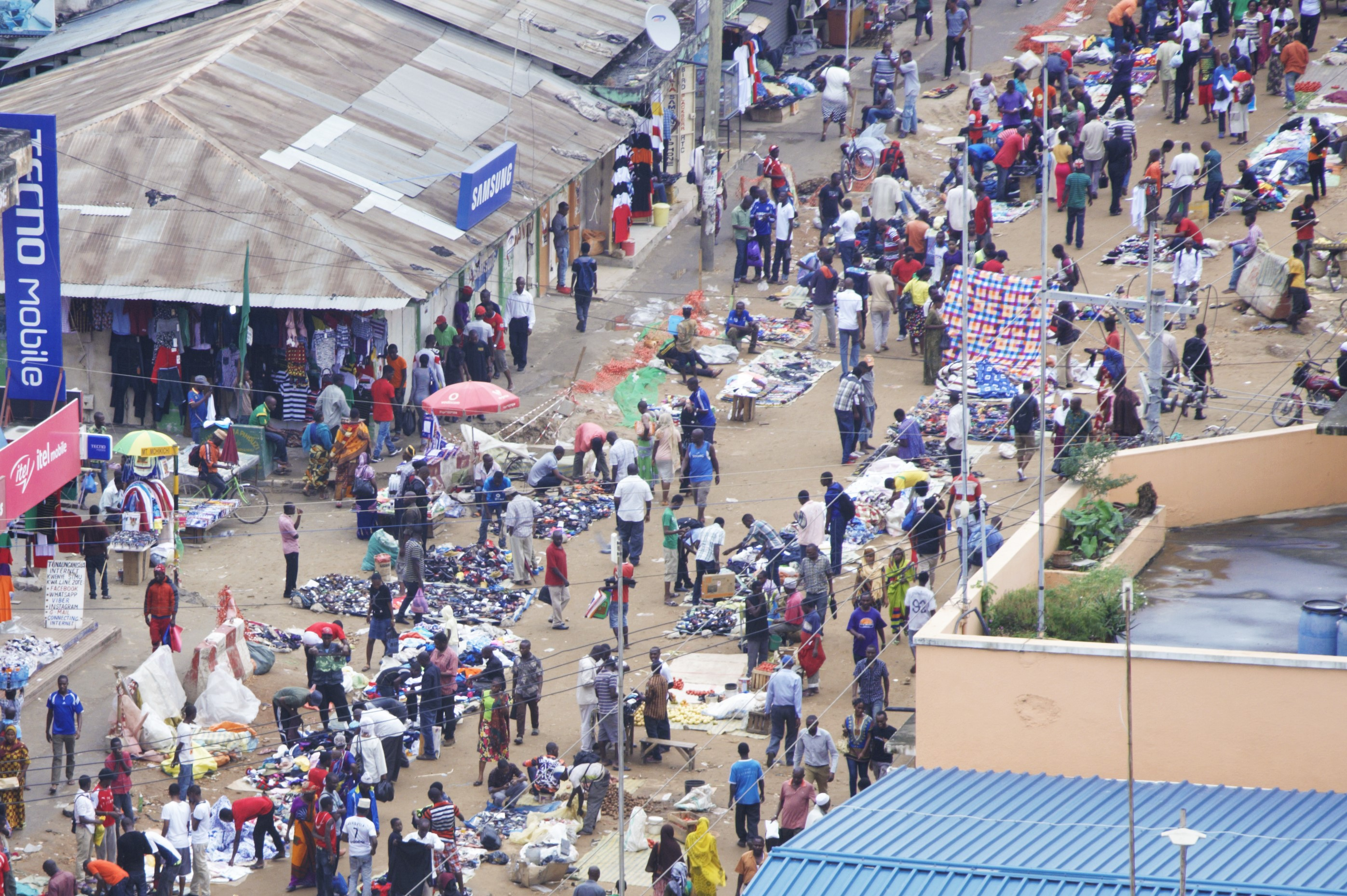 The bird's view of the Kariakoo market in Dar es Salaam. This photo has been taken by Prof. Chen Hualin.